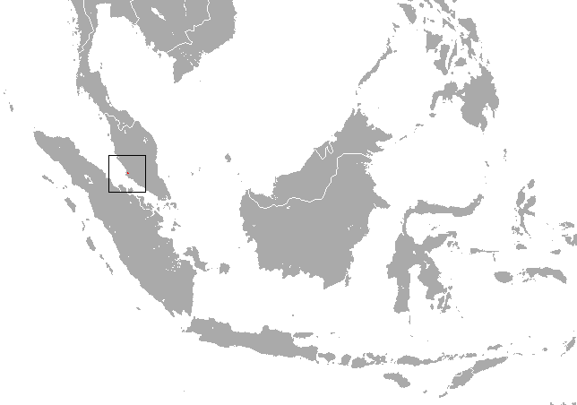 Malayan Roundleaf Bat (Hipposideros nequam) range